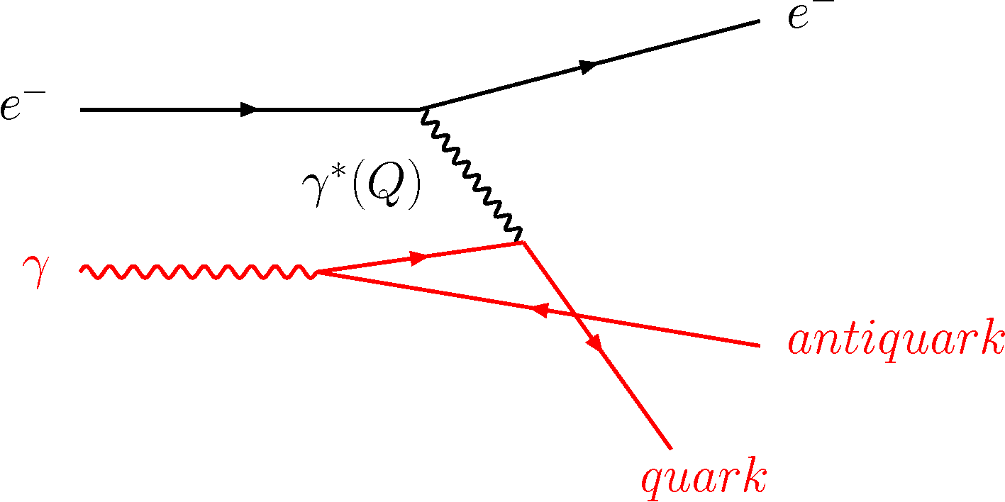 Feynmandiagramm for e-gamma scattering